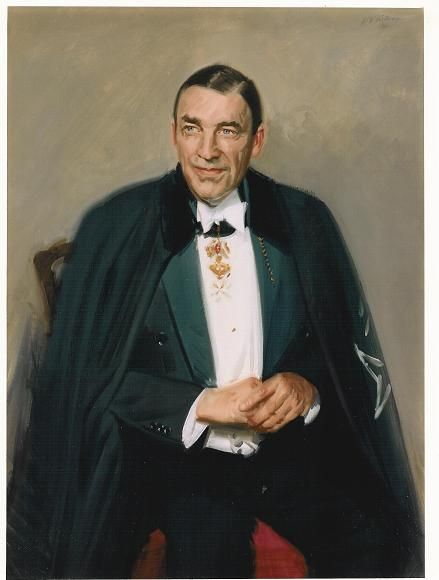 Portrait of Ambassador Charles Burke Elbrick by Andrew Festing, MBE PPRP